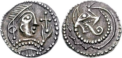 Anglo-Saxons, Secondary Sceattas. Circa 720-740. AR Sceat (1.13 g, 6h). Series K, type 32a. Mint in east Kent. Diademed and draped bust right, wreath knot behind head, holding cross Wolf-headed, coiled serpent right. Beowulf 61 (this coin); Abramson K400; Metcalf 307; North 89; SCBC 796. EF, toned. A masterpiece of Saxon art. From the Beowulf Collection. "Coiled, serpent-like creatures were a common protective motif in pre-Christian artwork. This symbol was assimilated into Christianity as a representation of Christ’s Resurrection (Gannon, pp. 137-8)"